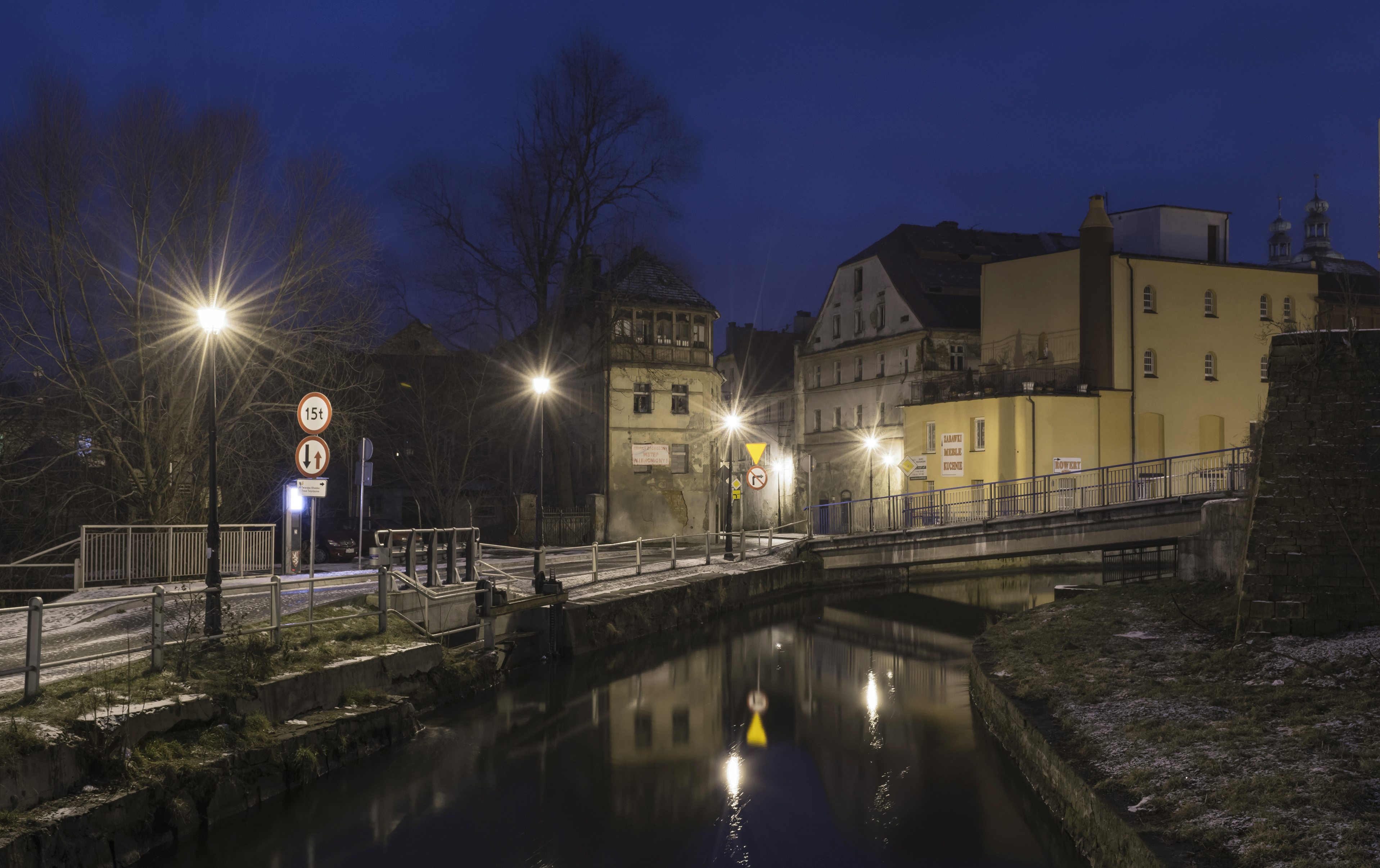 Młynówka canal in Kłodzko